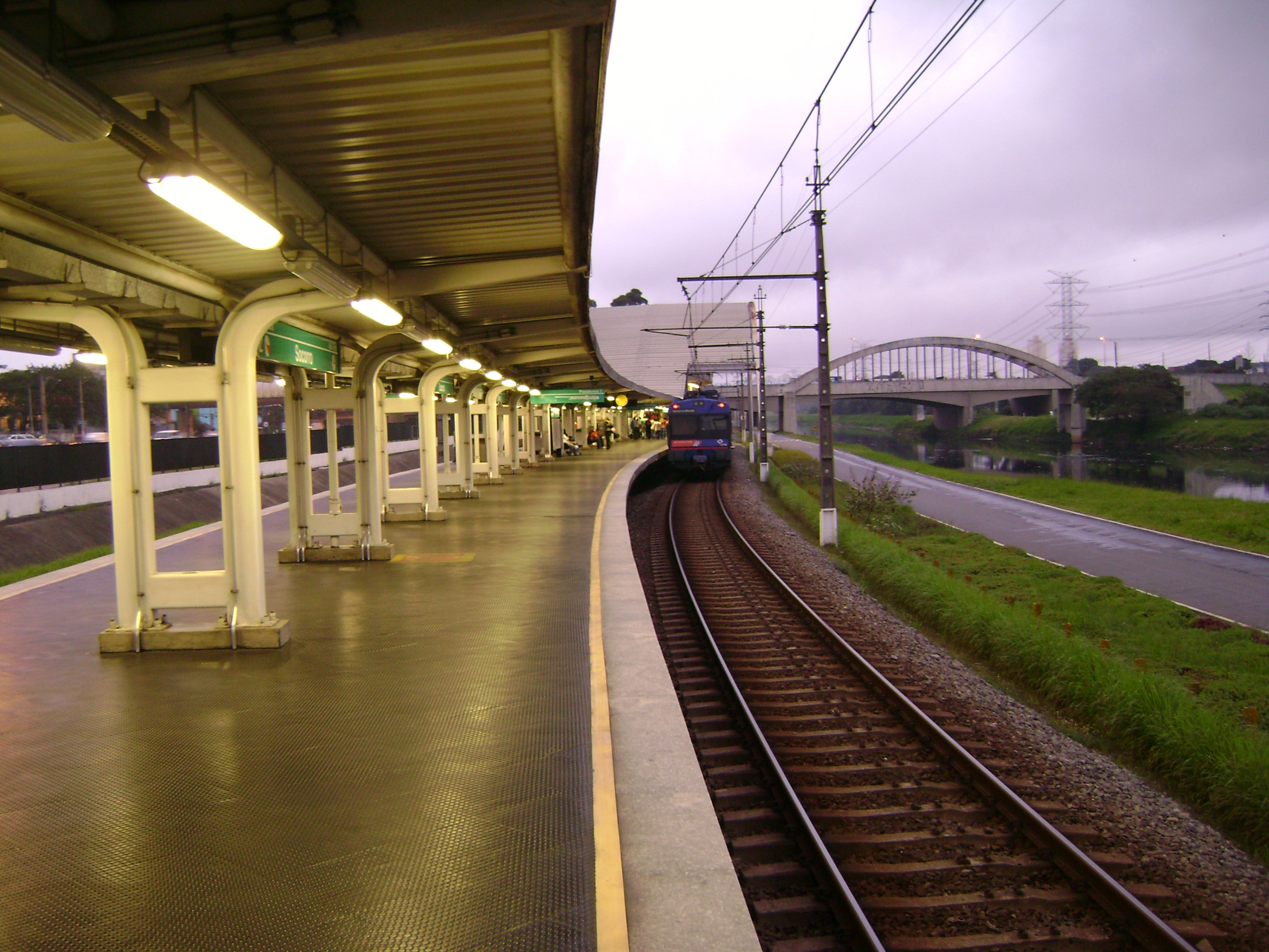 Photo of Socorro Station